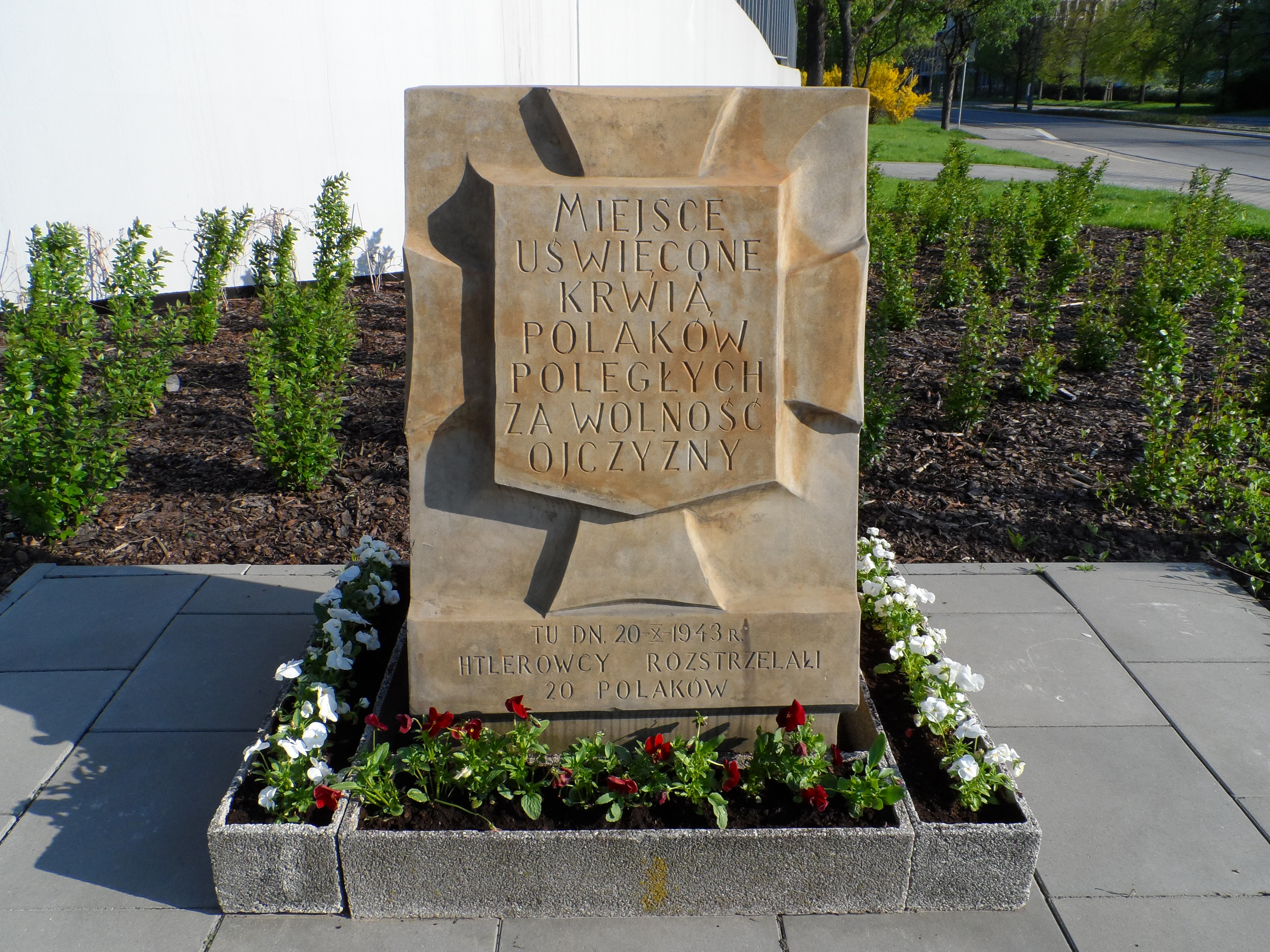 Plaque at Zygmunta Słomińskiego street in Warsaw (under an overpass which connect Żoliborz district with Warsaw’s downtown), commemorating about 20 Polish hostages murdered in this place by Nazi-Germans in street execution on 20th October 1943.